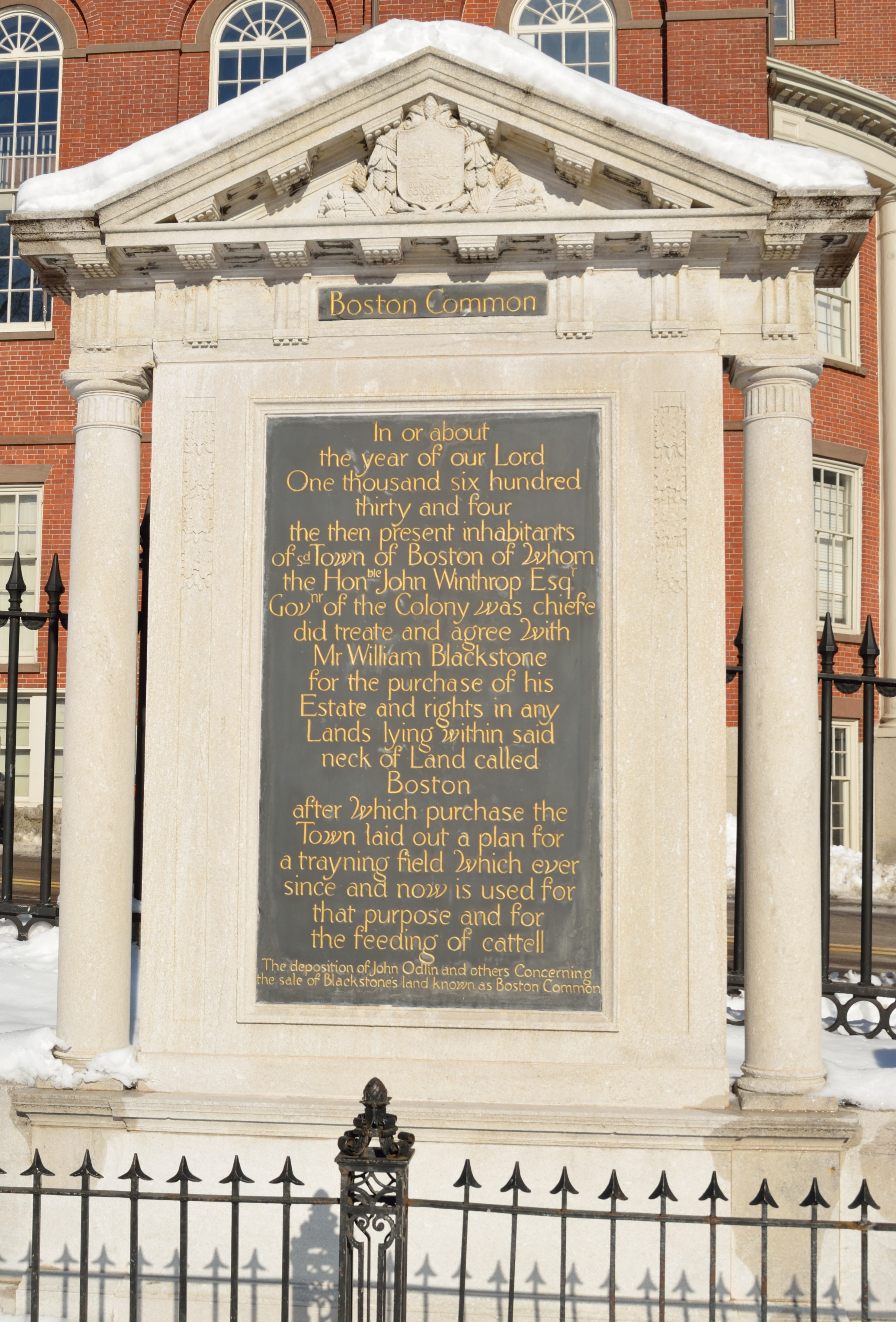 Plaque at Boston Common - 2014.